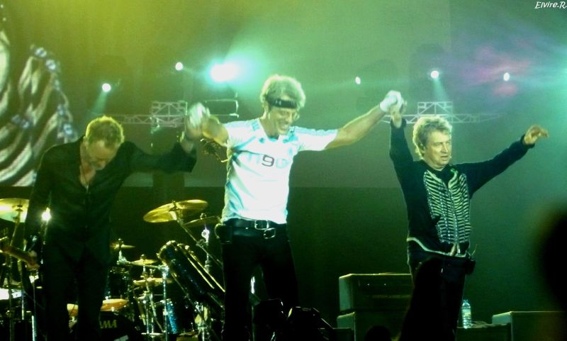 The POLICE Live @Le Vélodrome 03/06/2008